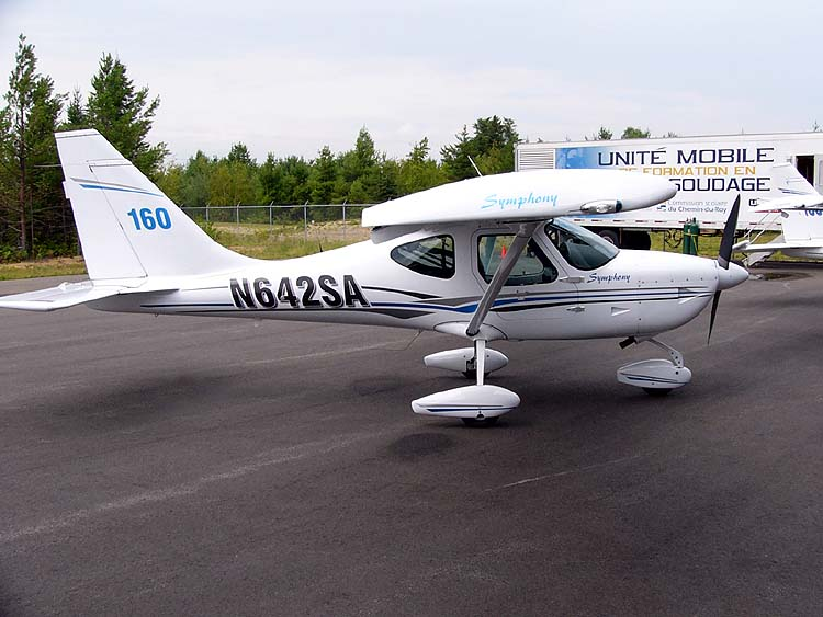 I took this photo at Symphony SA-160 (N642SA) in August 2005